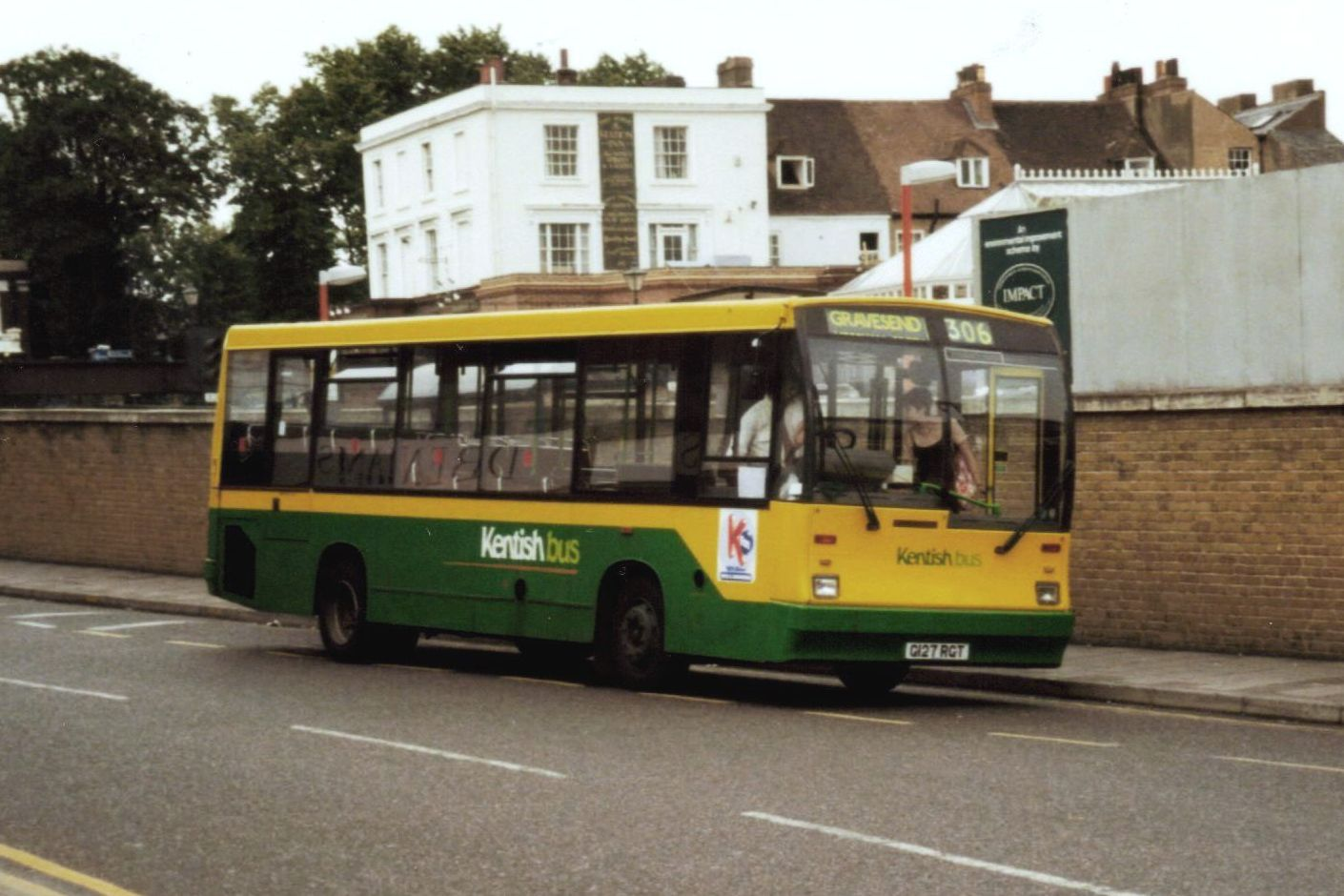 Kentish Bus 127, an early Dennis Dart with Carlyle body, at Gravesend in July 1996. Kentish Bus' parent British Bus was bought by Cowie Group a month later, and the company is now part of Arriva Southern Counties.